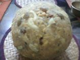 PRASHADAM ------ IN WHOLE WORLD THIS LADDU ONLY MADE IN KITCHEN OF LORD VENKATESWARA SWAMI AT TIRMALA TEMPLE IN ANDHRA PRADESH INDIA